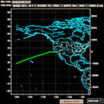 Long range ground tracking of STS-125 from Edwards AFB oribt 197